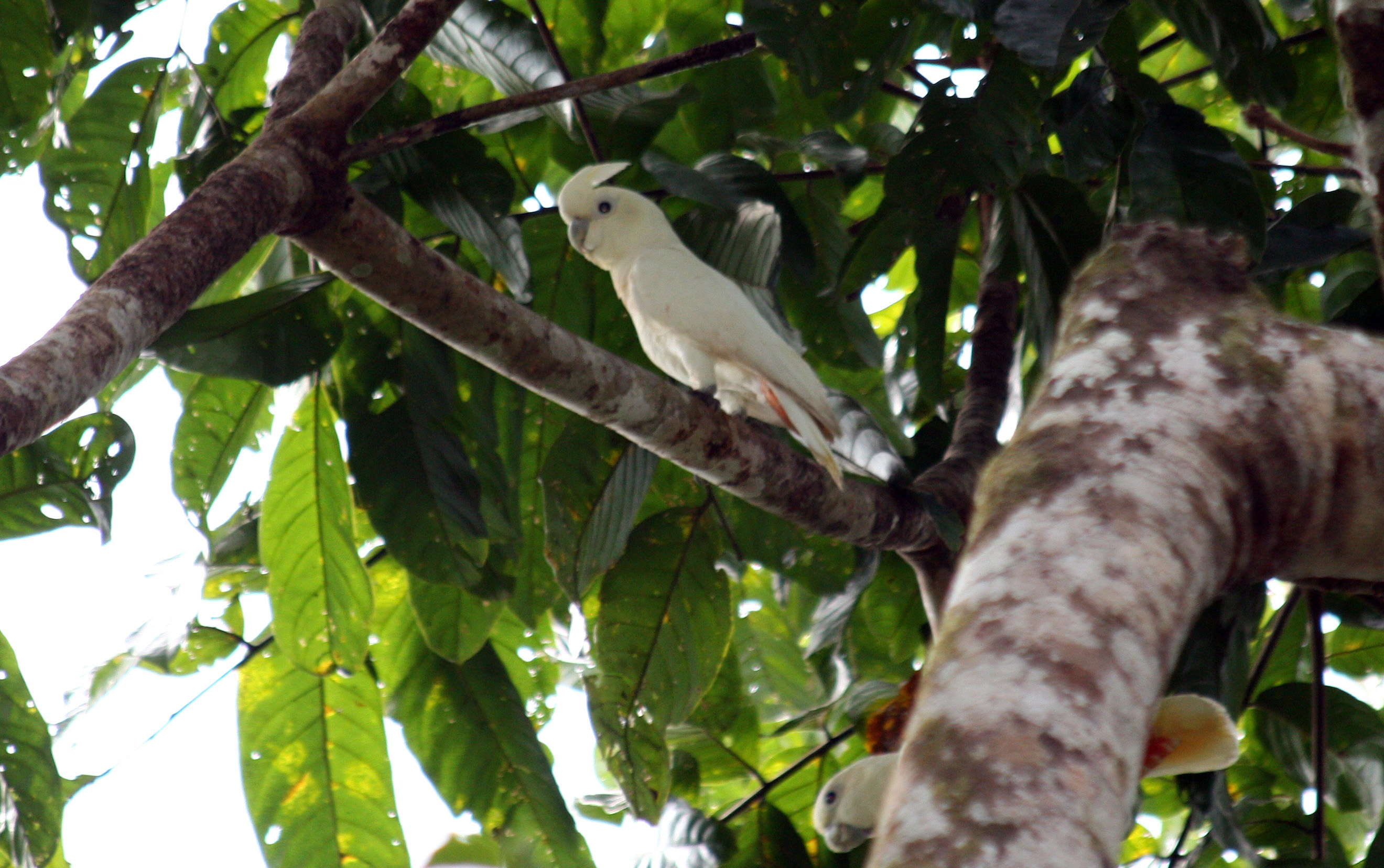 Two Red-vented Cockatoos in Palawan, Philippines.